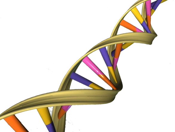 DNA Double Helix